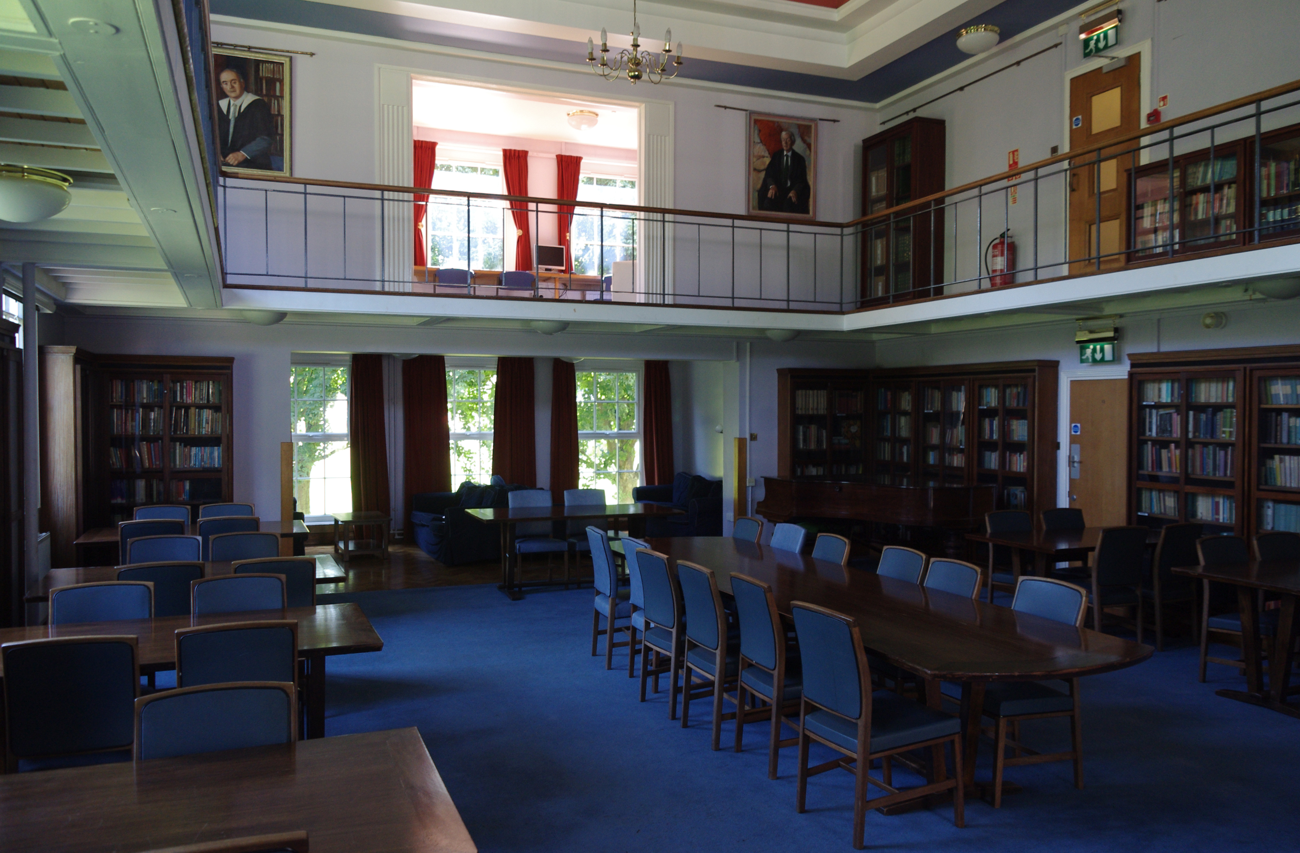 Interior of the Coveney Library of Lincoln Hall at the University of Nottingham.